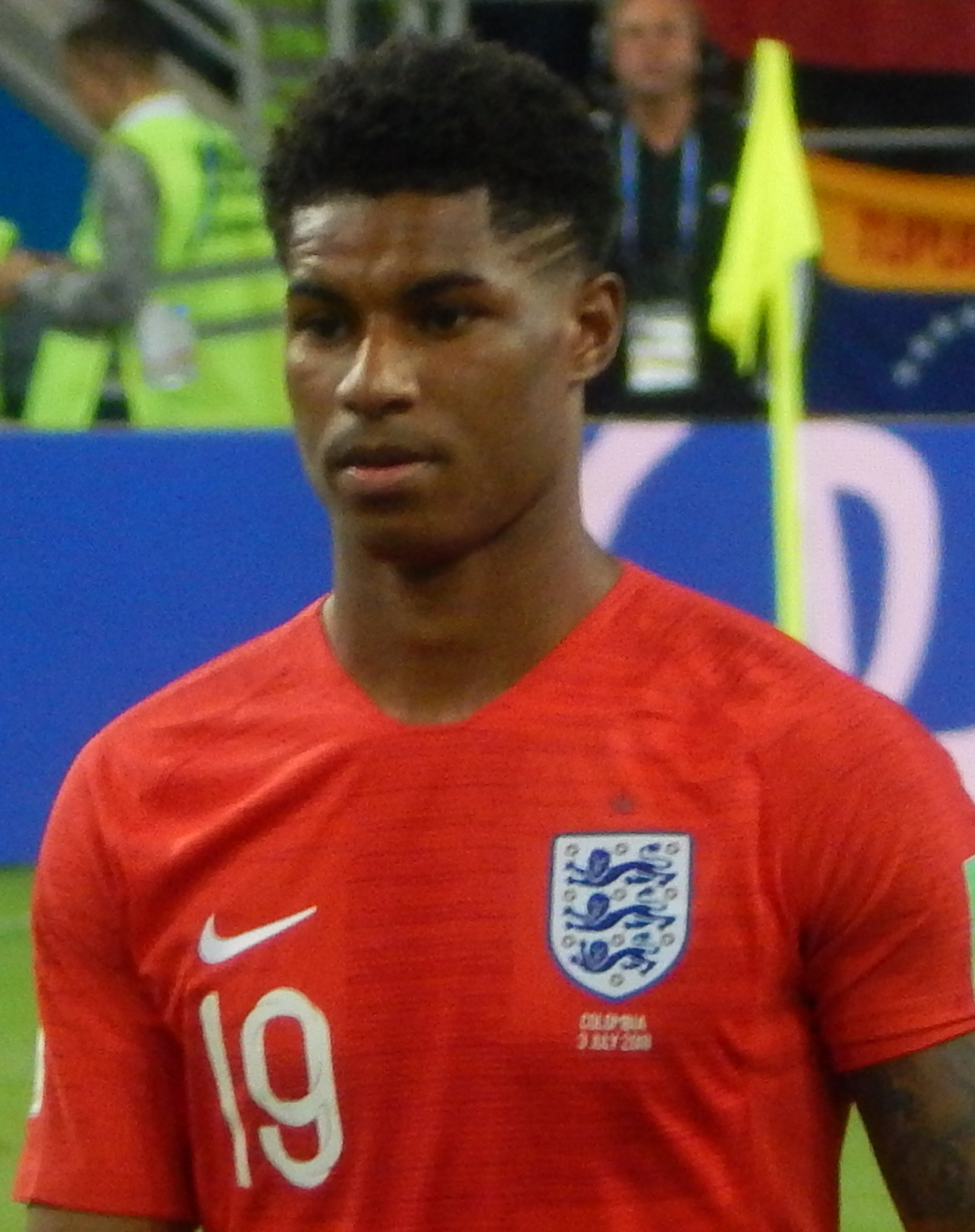 FIFA World Cup 2018, Round of 16, Colombia vs. England. Marcus Rashford before his penalty kick during the shoot-out